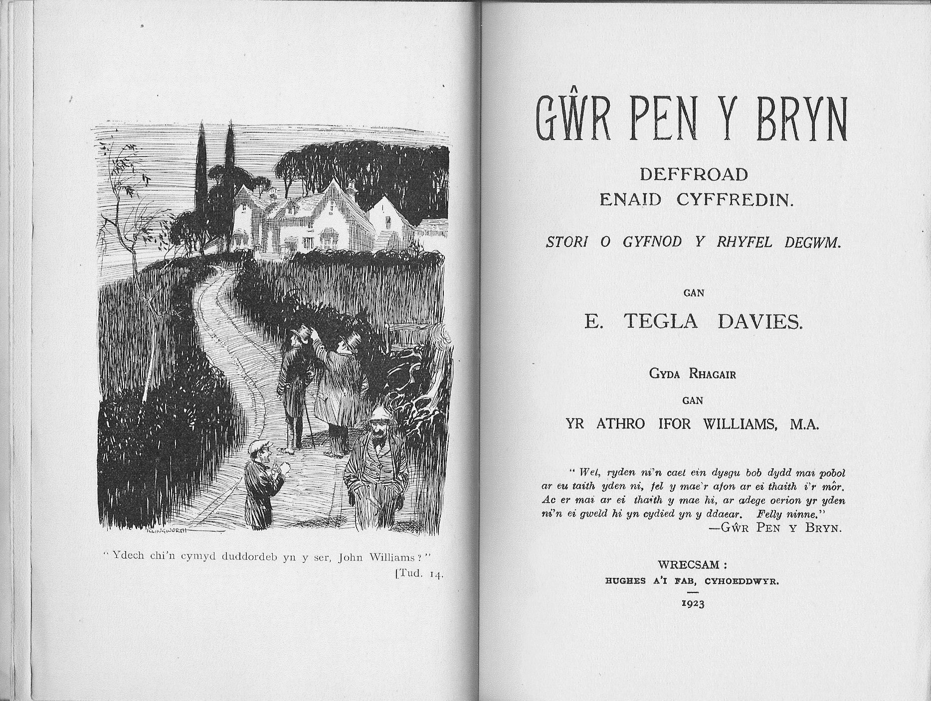 Frontispiece and title page of the Welsh-language historical novel Gŵr Pen y Bryn (Huhges & Son, Wrexham, 1923), by E. Tegla Davies.